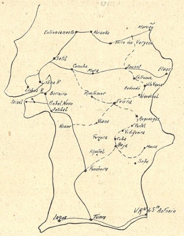 Map of the railway network in southern Portugal, if the propositions of the engineers Thomaz Rumball e B. Wattier have been accepted, in the first years of the portuguese railway planning, in the middle of the 19th Century. The map shows the Rumball proposition for the Eastern Railway (Lisbon - Badajoz), that crossed the Tagus River near Carregado, followed the Sorraia valley near Benavente, Coruche and Mora, and passed near Estremoz and Elvas. There are also the projects of Wattier for the southern region: one railway from Coruche to Évora via Montemor-o-Novo, another to Algarve using the valley of the Sado River, with a branchline to Évora, and a third, that would connect all the others, from Castelo de Vide to the Sado railway, passing through Sousel, Évora and Beja. This image was published on the Gazeta dos Caminhos de Ferro magazine No. 1140, of 16th June 1935, and scanned by the Hemeroteca Municipal de Lisboa